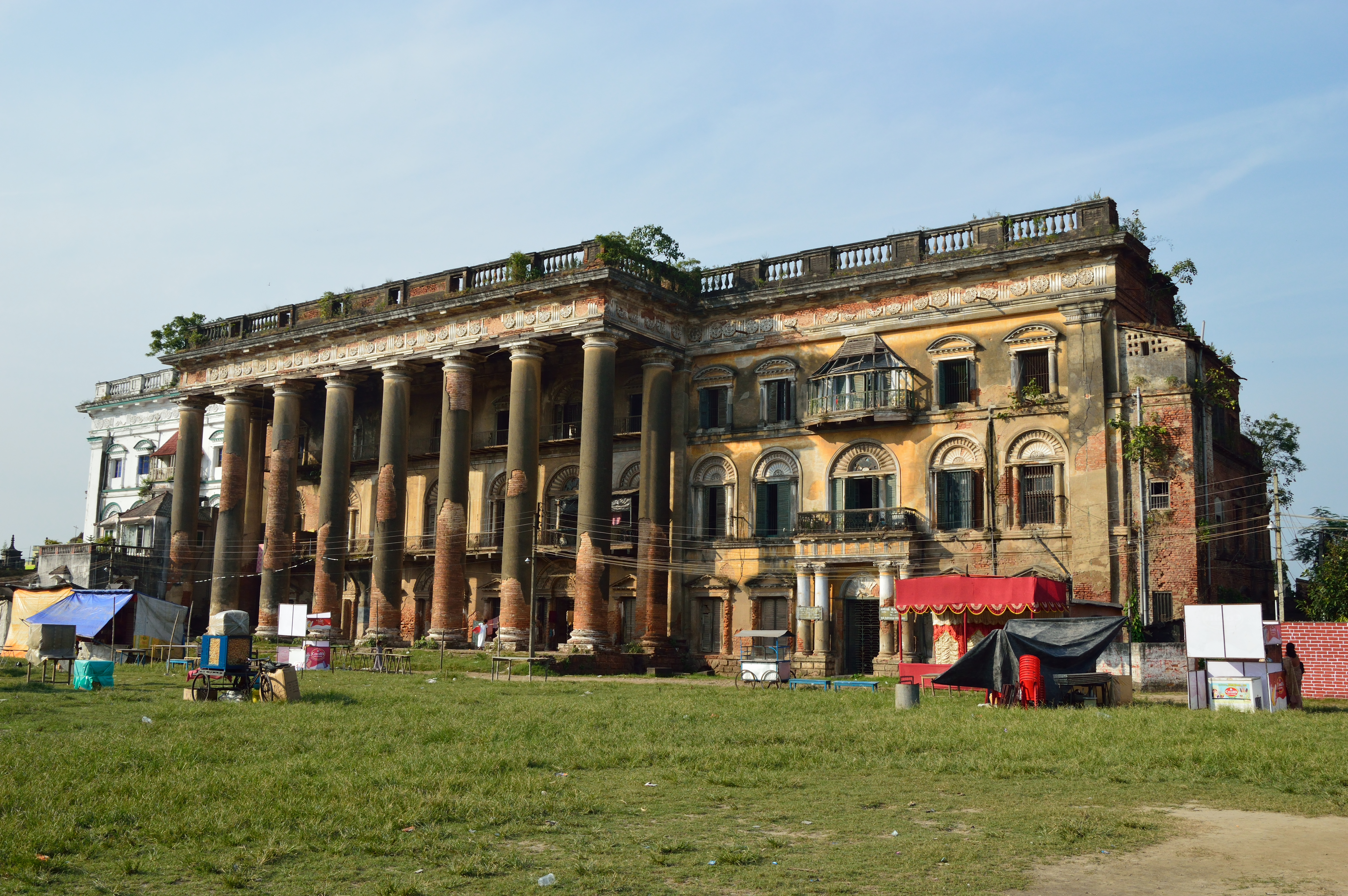 Photographed in greater Kolkata, India.